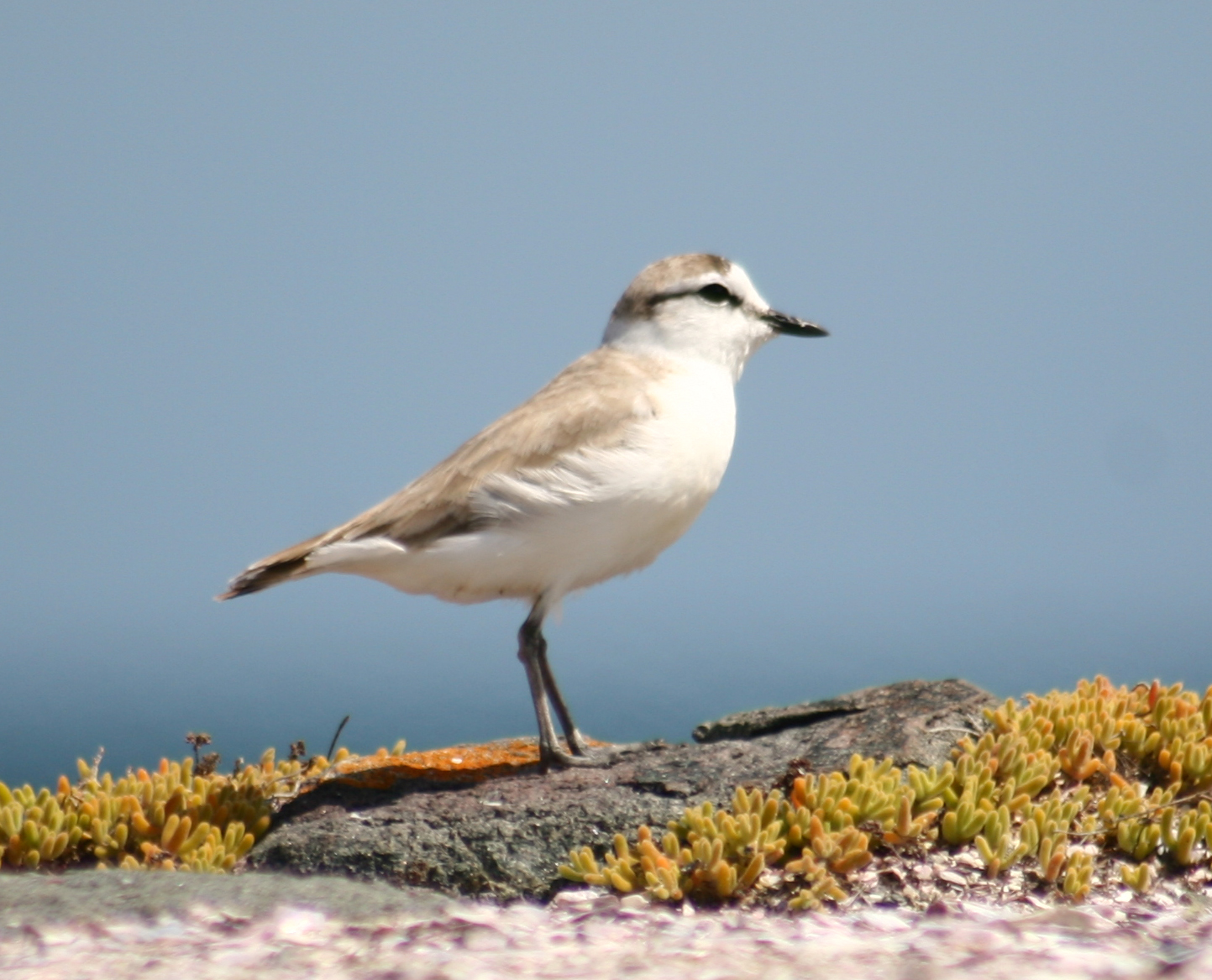 White-fronted Plover Charadrius marginatus, South Africa